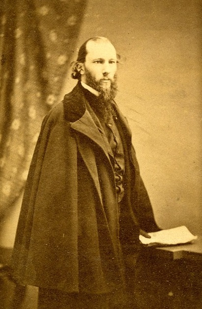 Formal three quarter length portrait of Frederic Beecher Perkins